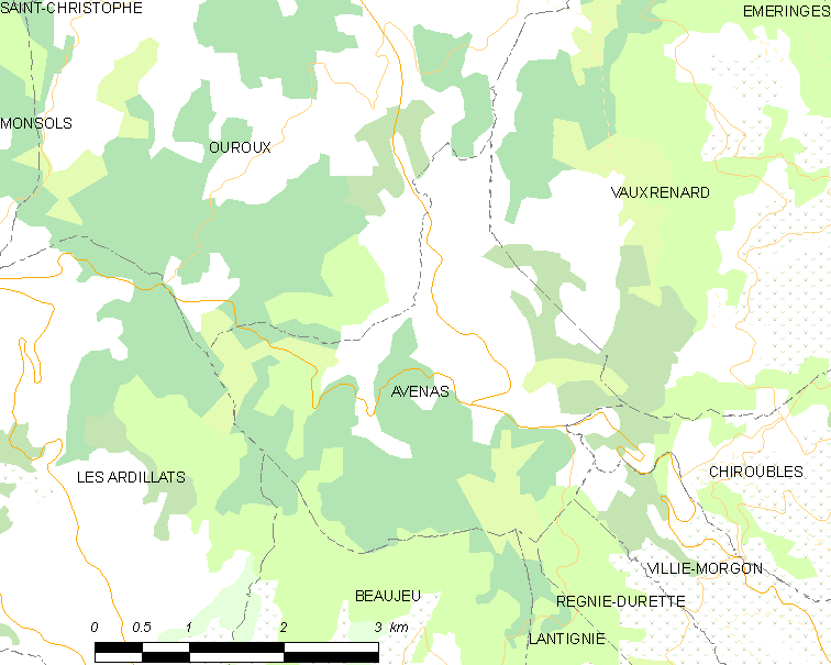 Map of French municipality